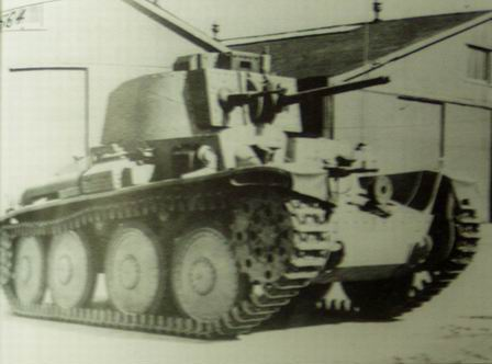 Czechoslovak tank LT-38